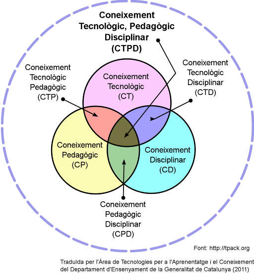 Personal Learning environment